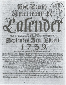 Front page of an almanac printed in Germantown, Philadelphia, Pennsylvania in 1739 by Christopher Sauer. Picture of the text in German Language Printing in the American Colonies up to the Declaration of lndependence (part 2), the website above.